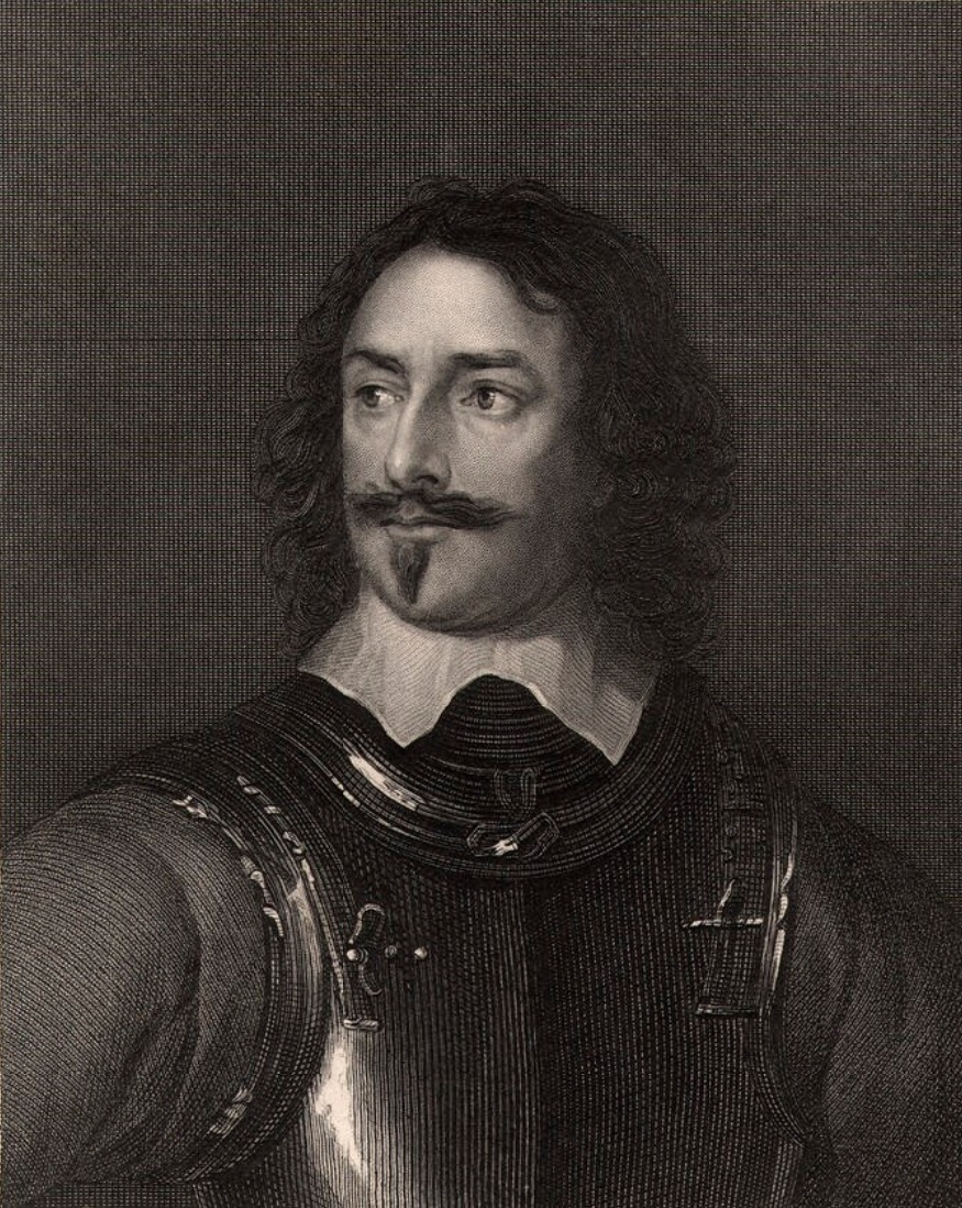 Stipple engraving of Robert Devereux, 3rd Earl of Essex.